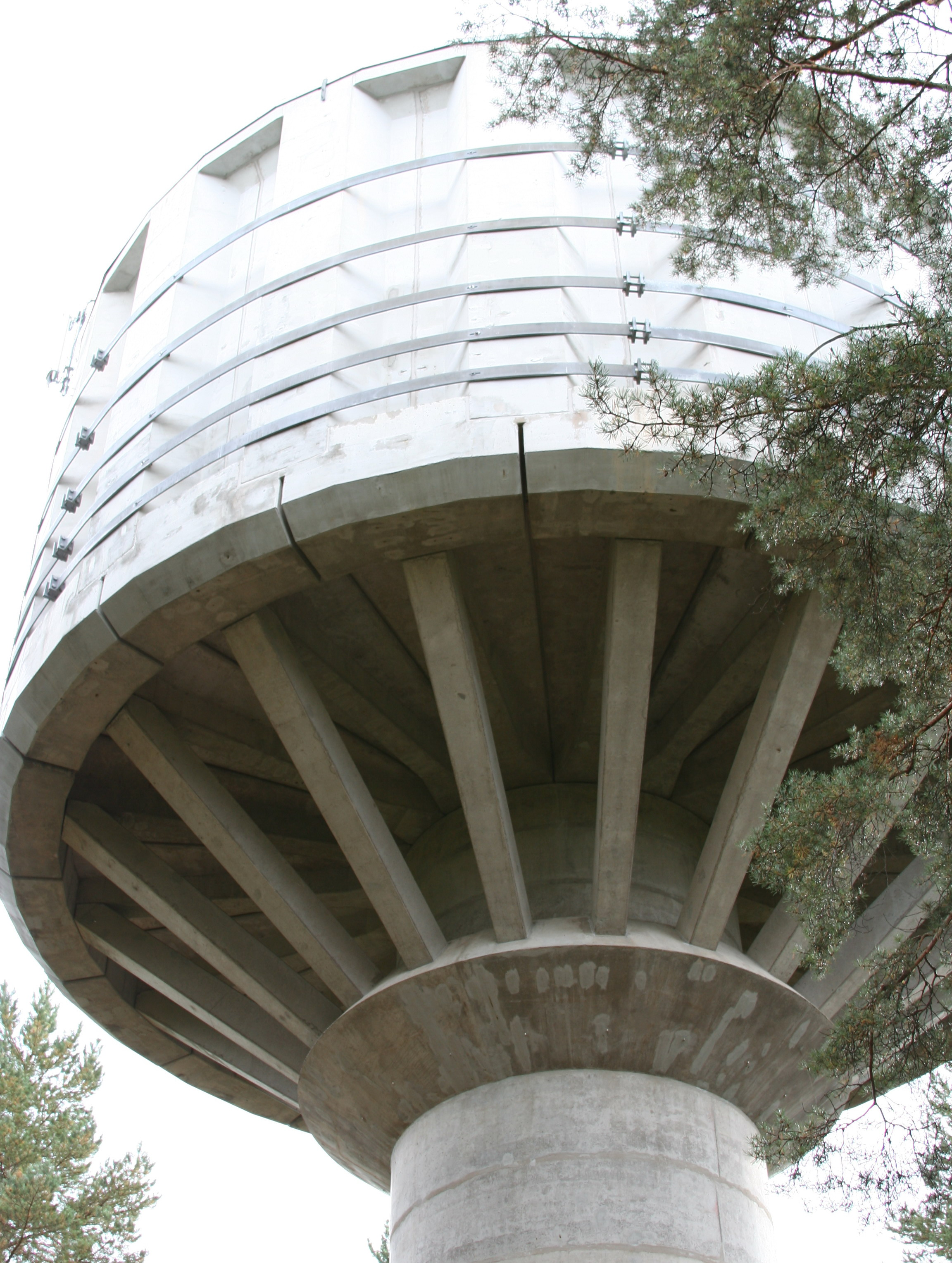 Nurmijärvi Water tower, Nurmijärvi, Filnad. Bottom detail.